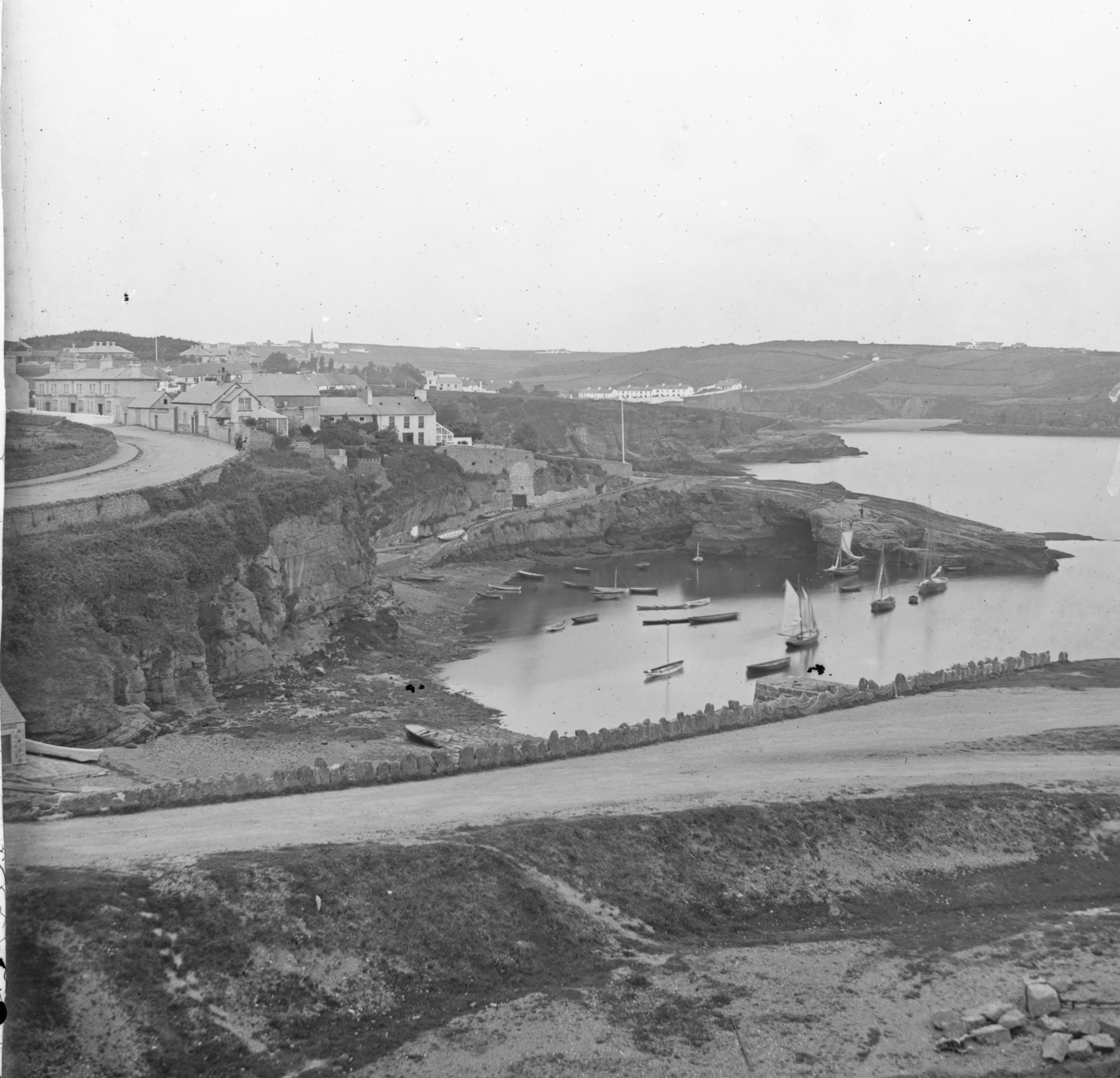 High angle long shot village over small cliffs to beach and bay with many small boats, low hills, in background. [/photos/beachcomberaustralia/ beachcomberaustralia] had the location of this photo identified in jig time as Dunmore East, Co. Waterford, he should enjoy his day in the sun, as [/photos/8468254@N02/ derangedlemur] confidently predicted that if he had been here at the time he would have been quicker! If ifs and ands were pots and pans (there'd be no work for tinkers' hands). Beachcomber also tells us that "In about 1812 a decision was made at Westminster to create an entirely new landing point for passengers and mails coming to Ireland from London and southern England. The location selected was Dunmore East and £118,000 was set aside for the erection of a pier there. So in 1814 dramatic changes took place when Alexander Nimmo, the Scottish engineer (builder of Limerick's Sarsfield Bridge) commenced work on the new harbour at Dunmore to accommodate the packet station for ships, which carried the Royal Mail between England and Ireland" Photographers: Frederick Holland Mares, James Simonton Contributor: John Fortune Lawrence Collection: The Stereo Pairs Photograph Collection Date: between ca. 1860-1883 NLI Ref: STP_1880 You can also view this image, and many thousands of others, on the NLI’s catalogue at